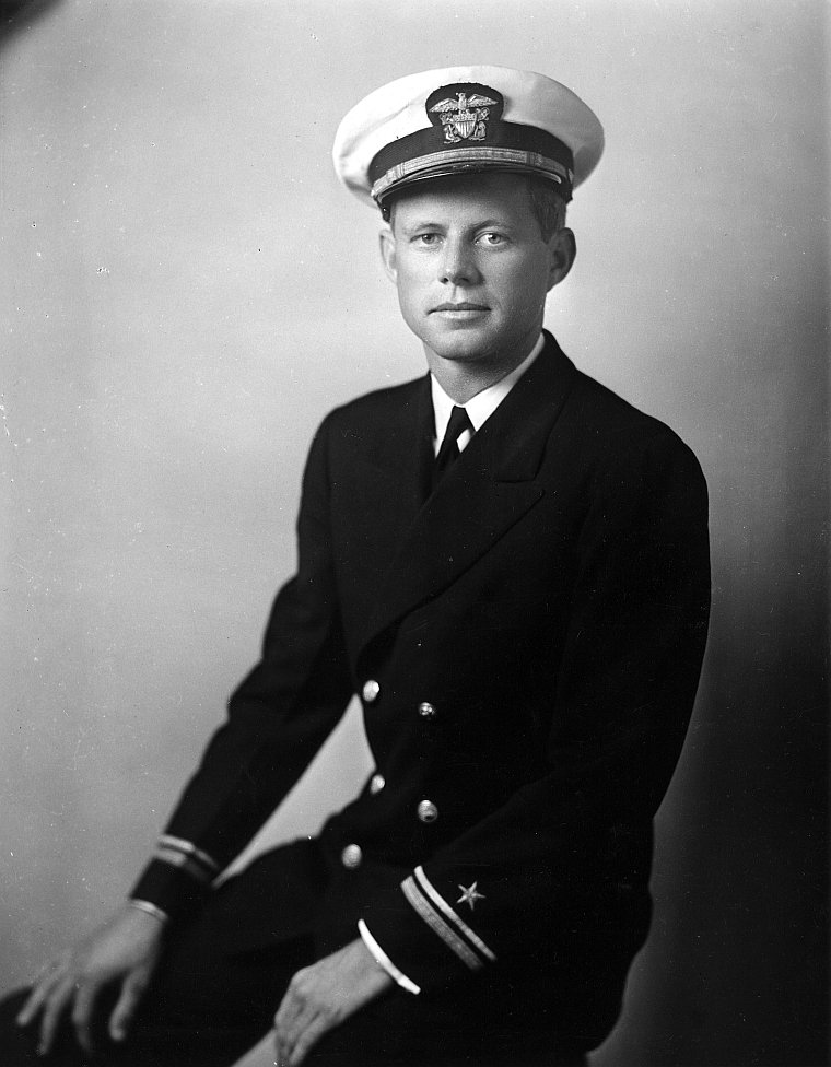 JFK PP-81 Lt. (jg) John F. Kennedy, 1942. Turgeon Studios, Potomac, Maryland.